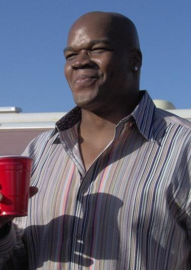 Frank Thomas at the 2007 BCS National Championship Game.